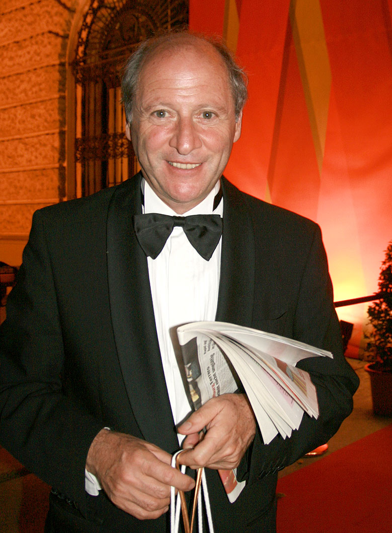 Robert Dornhelm at the Romy TV awards (Hofburg Imperial Palace in Vienna)